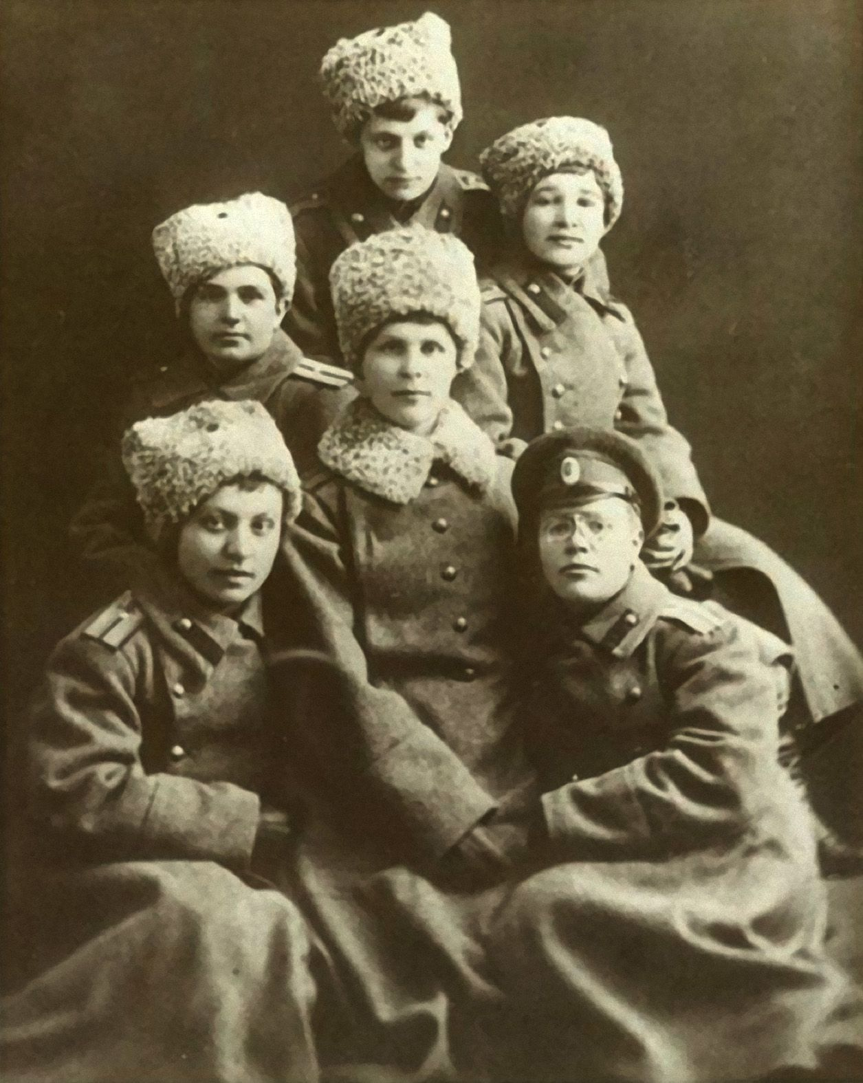 Russian army women-praporshiki graduated Alexandrovskiy Army College during WWI 1917